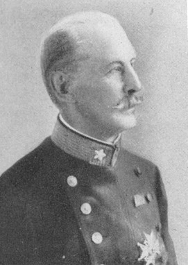 August Geelmuyden Spørck (1851-1928)Depicted person: August Spørck – Norwegian politician